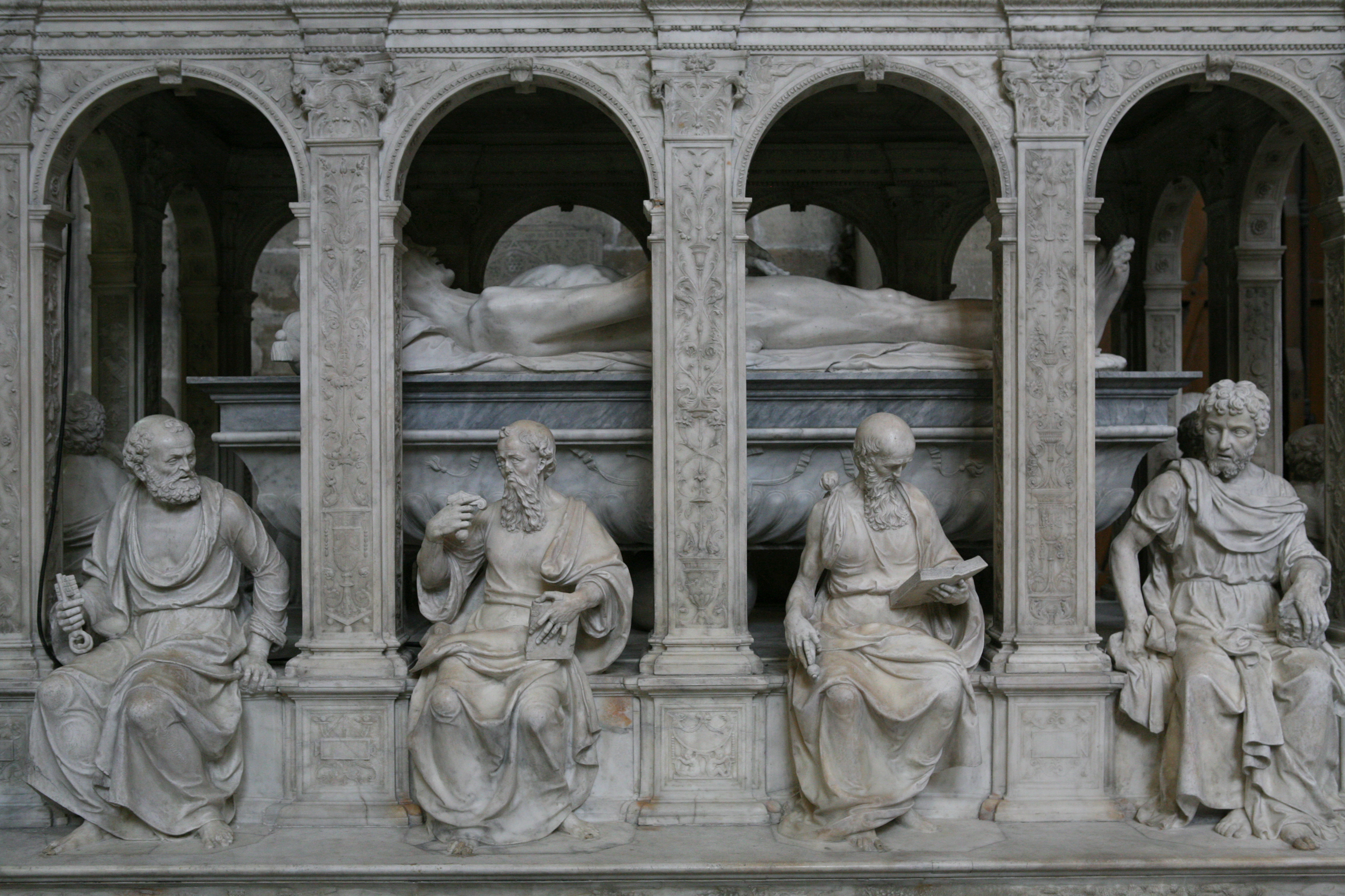 The tomb of Louis XII of France and Anne de Bretagne at the Basilique Saint-Denis (Detail)